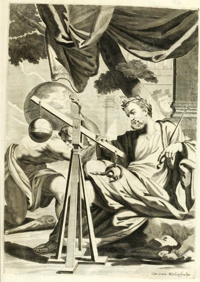 Page from the Aquilae Austriacae pars secunda published in 1679 in Venice by Giovanni Palazzi and illustrated with nine full-page engravings including of 5 allegorical ports and of emperors. Some are signed by Cornelis van Merlen or Pieter van Sikkelaer as engraver, after designs by Arnold van Westerhout. Additional engravings depict coins and medals.